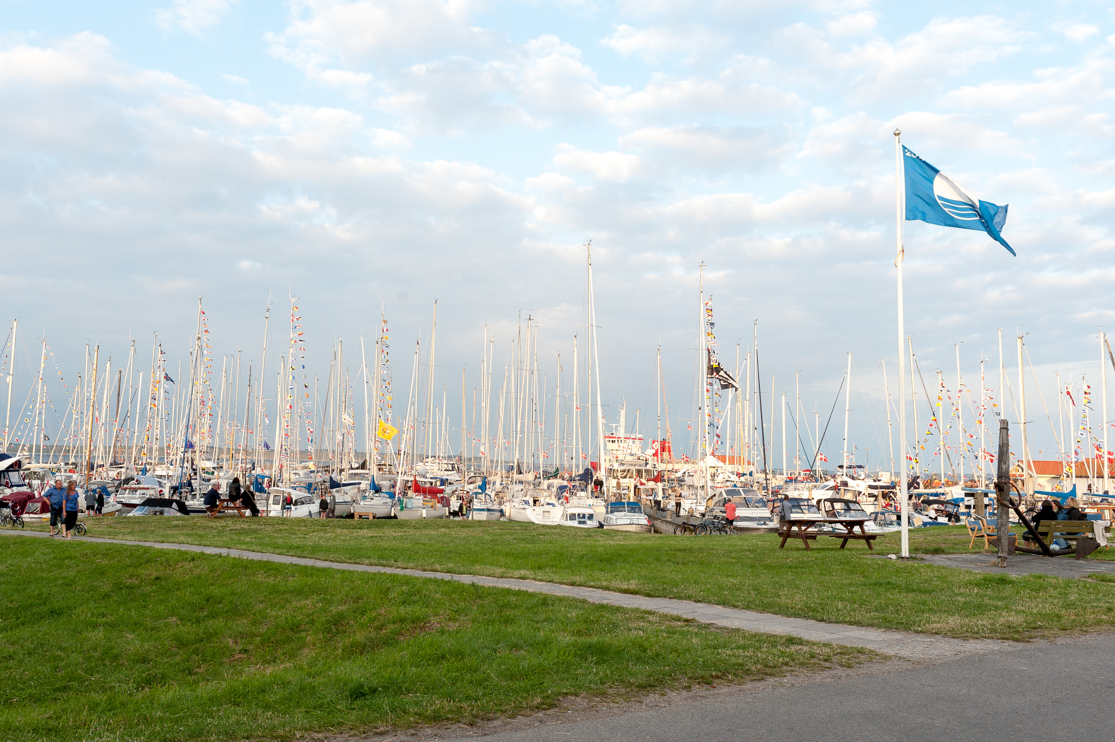 Tunø Festival. Tunø harbour area